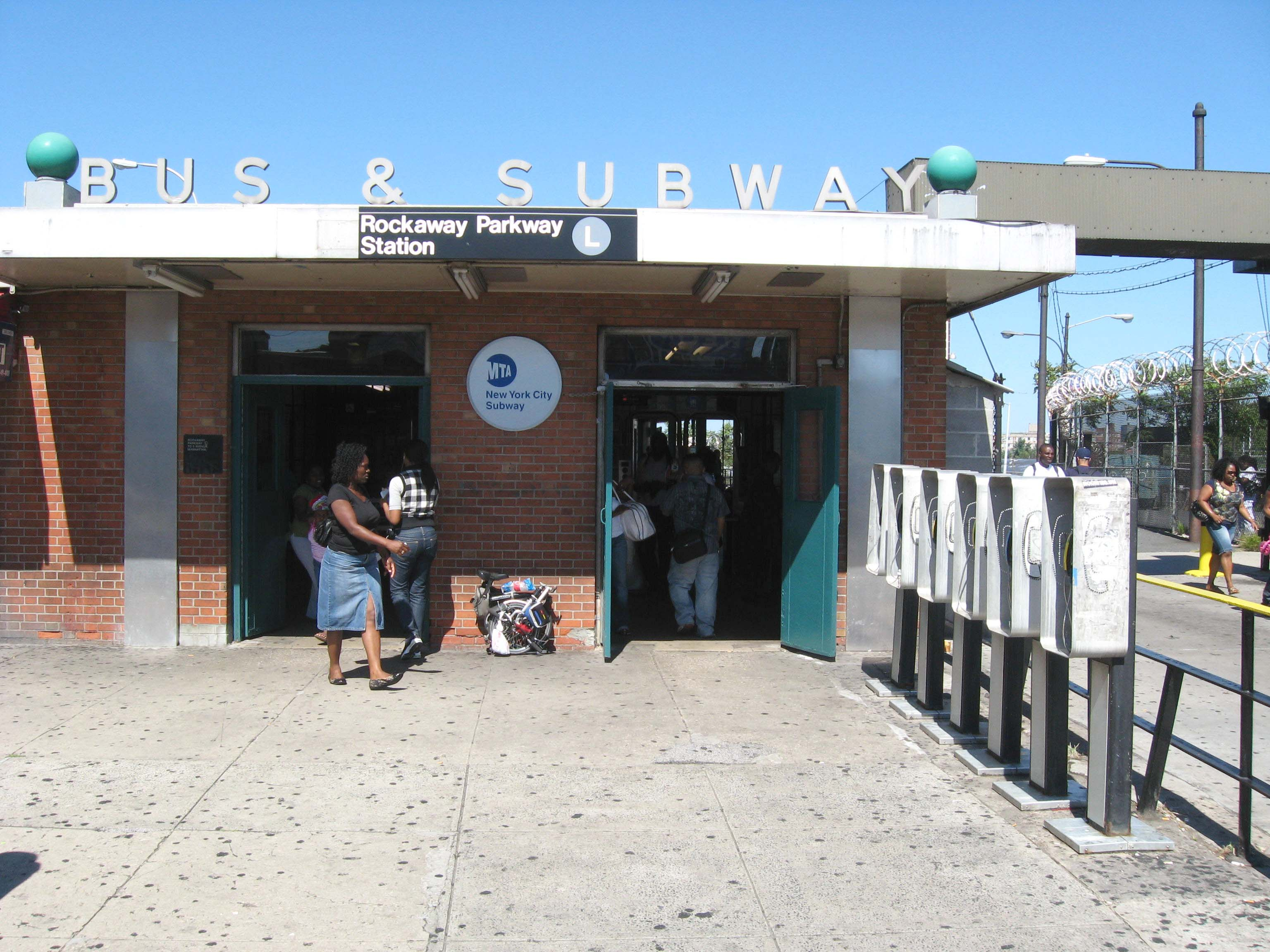 Looking northeast at Canarsie – Rockaway Parkway (BMT Canarsie Line) station house on a sunny midday. Exiting passenger eyes the photographer's folded bicycle.